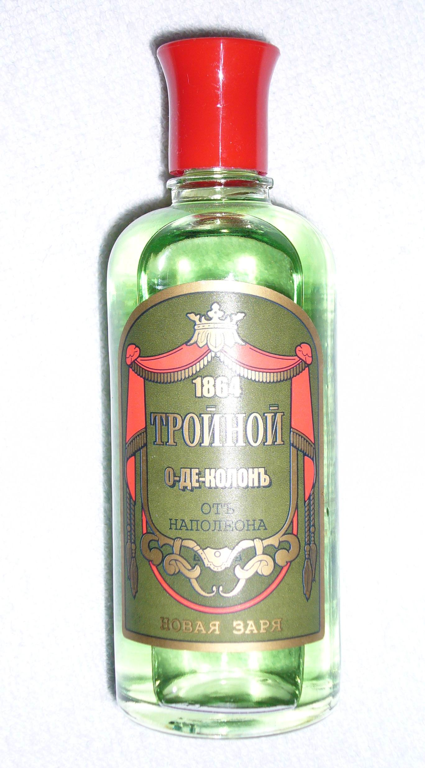 Eau de Cologne "Trojnoj"